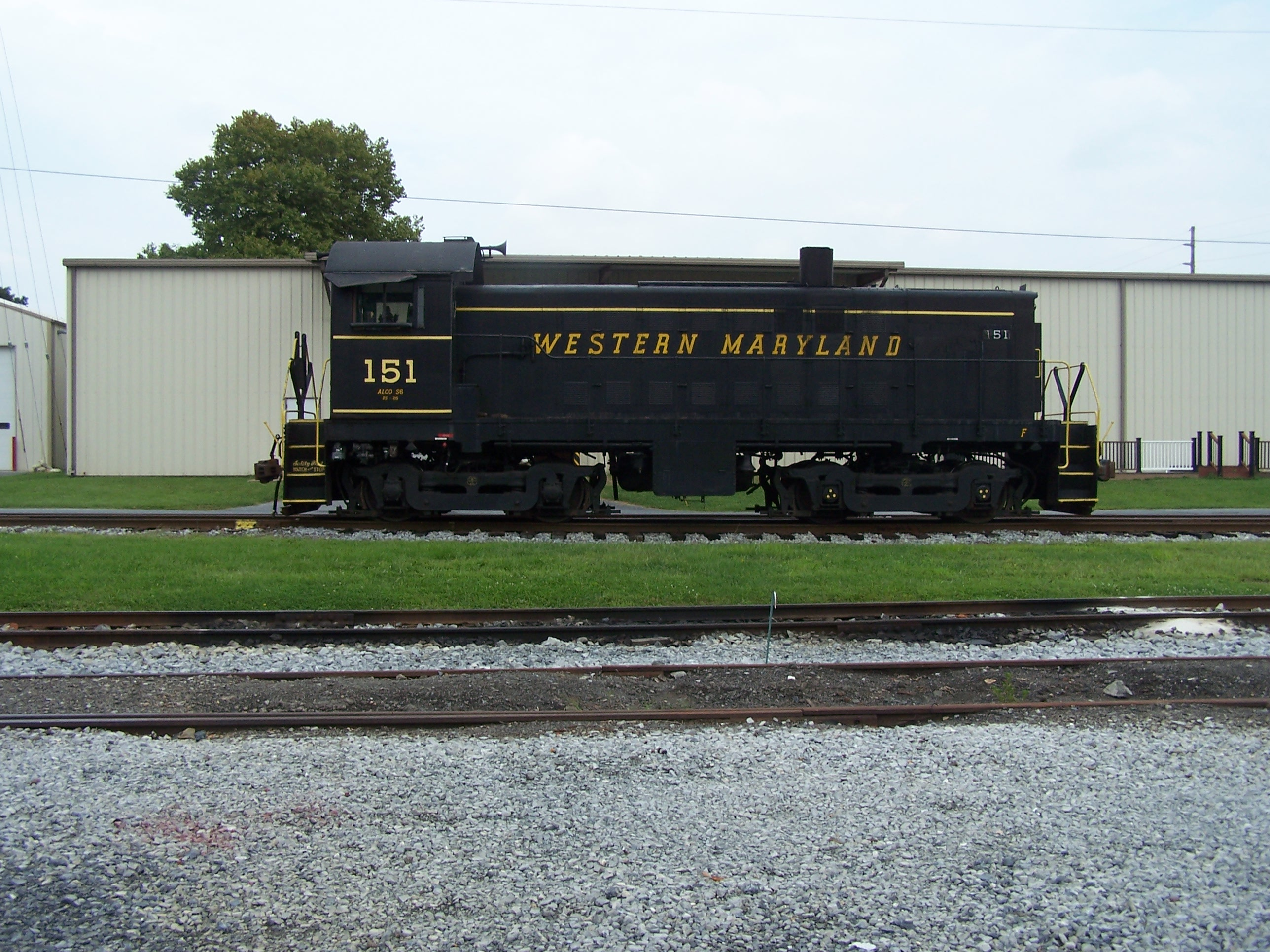 Middletown and Hummelstown Railroad Company locomotive #151 in Western Maryland lettering, at the M&H Railroad Museum.